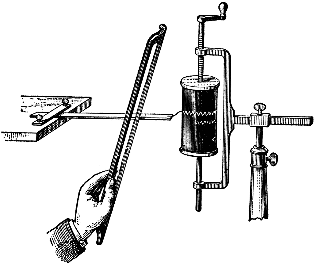 A mechanical vibroscope. The tuning fork touches an object which draws a wave trace on cylinder smoked surface.